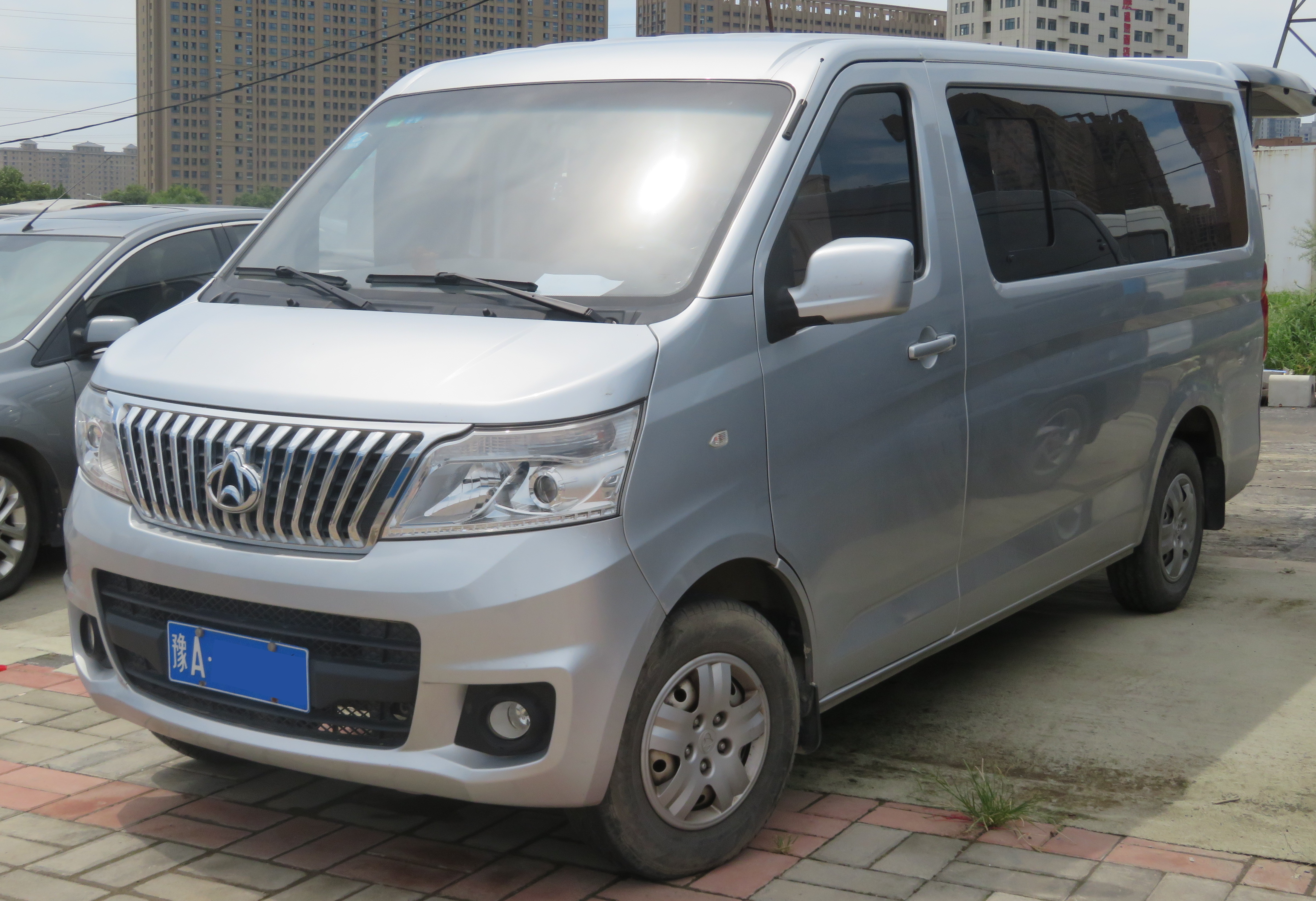 Photographed in Zhengzhou, Henan province, China